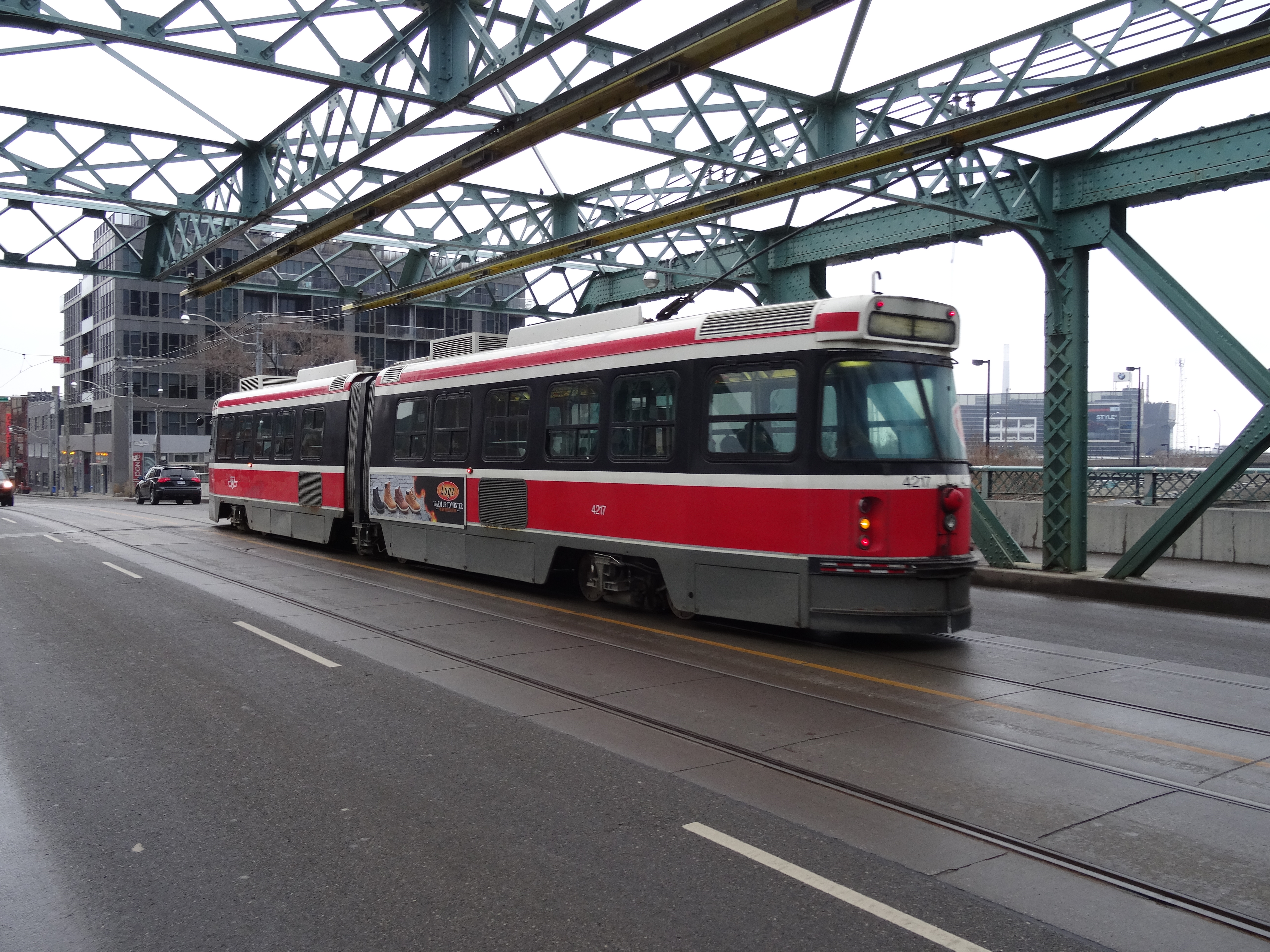 Streetcars on the Queen Street bridge over the Don River, 2014 12 03 (2) On December 3, 2014, I went on a photo excursion with my new camera, and, among the photos I took were three dozen or so images of TTC streetcars, on or near the Queen-Broadview bridge over the Don River.